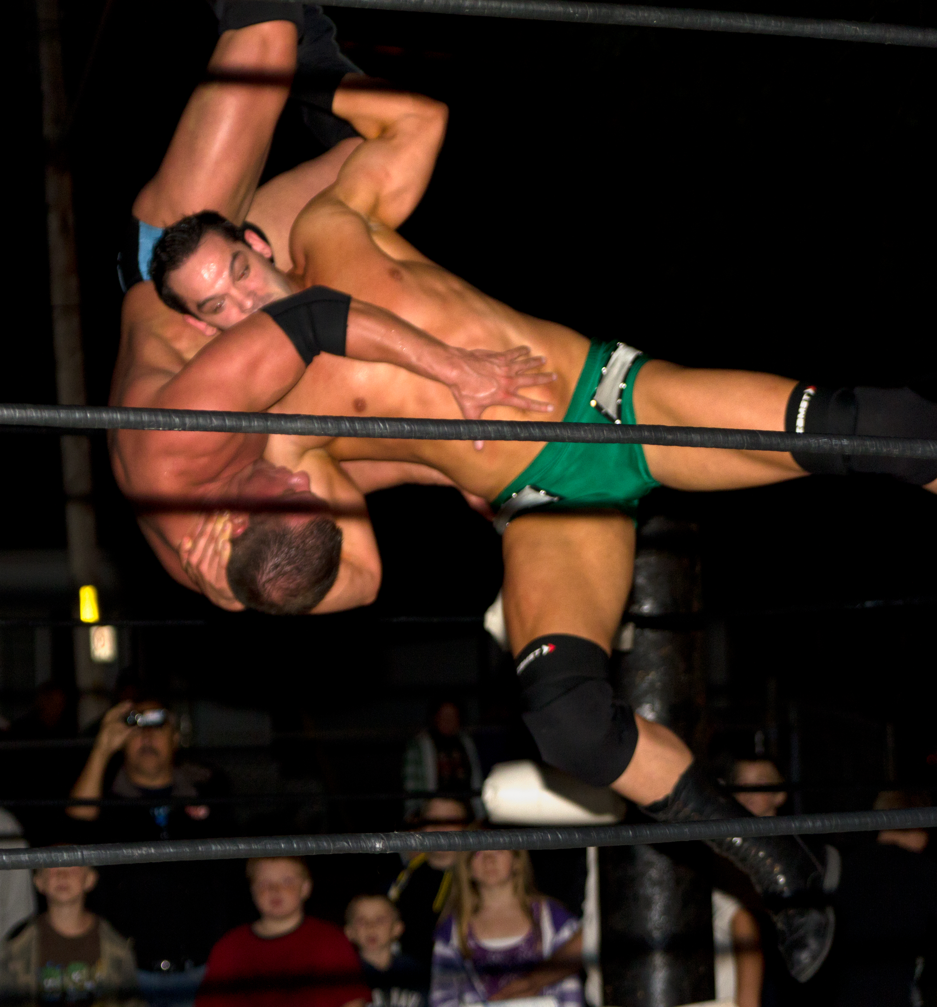 Shawn Spears performs his signature Death Valley Driver on Pepper Parks, September 15 2011